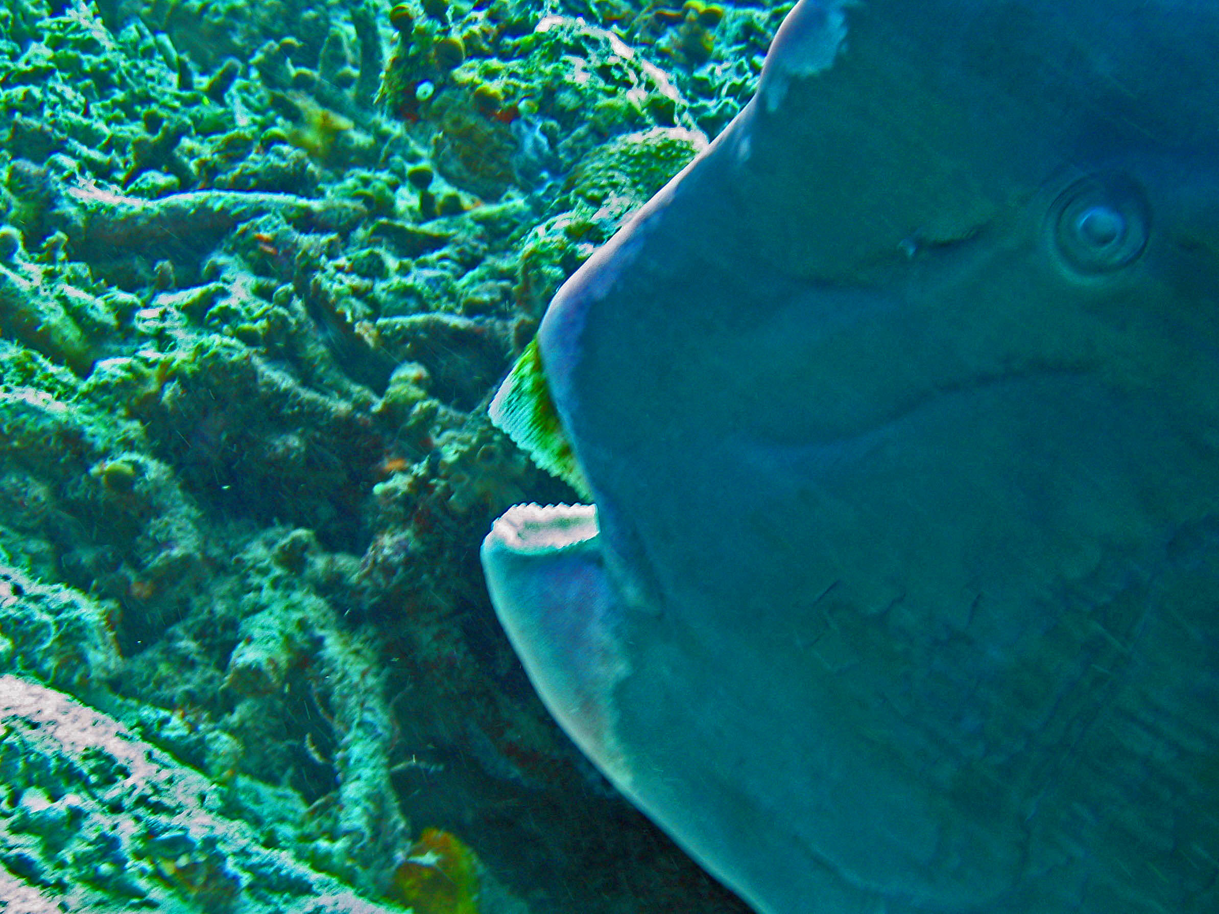 Close-up on a 'Bolbometopon muricatum' in Borneo